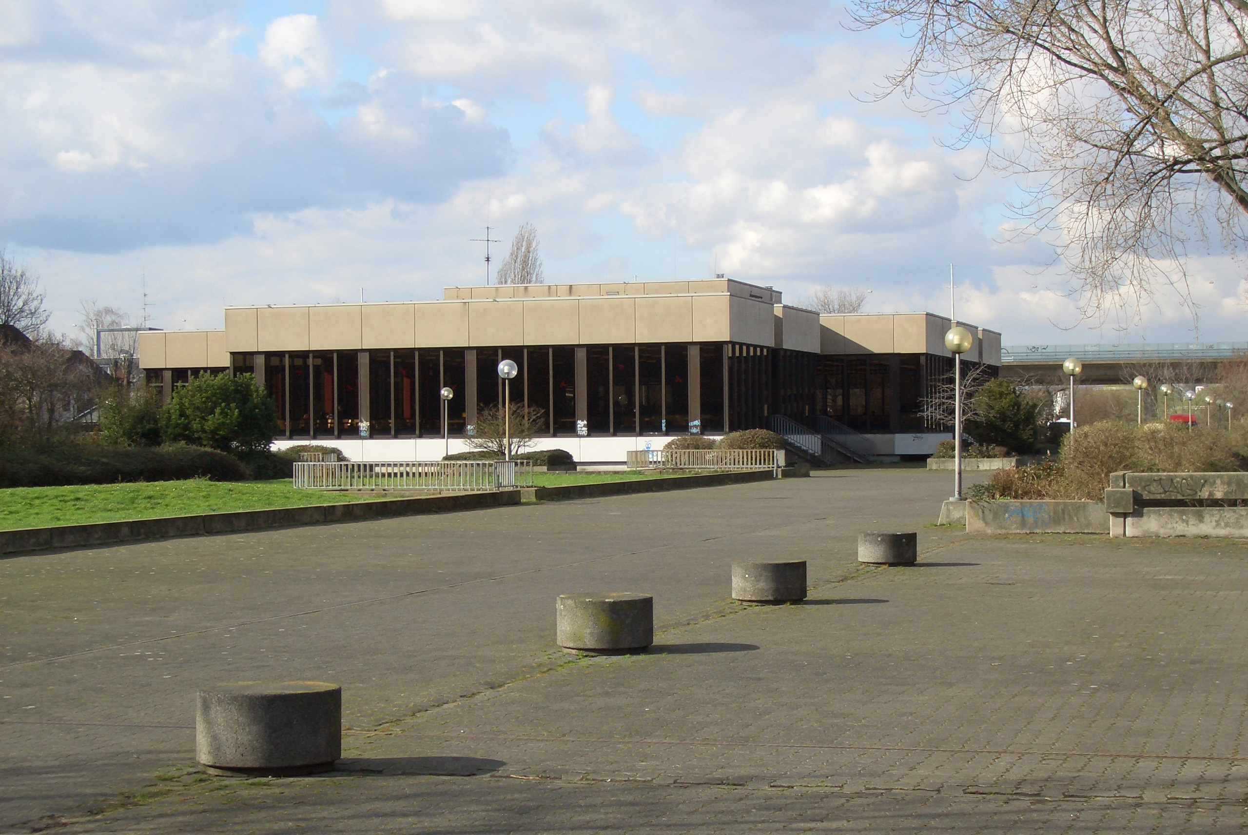 Photo of the cafeteria Römerstraße of University of Bonn.